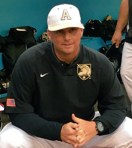 Photo of United States Military Academy (Army) baseball head coach Jim Foster before a 2017 game. Original caption: "All set to help Coach Foster take the lineup card out"